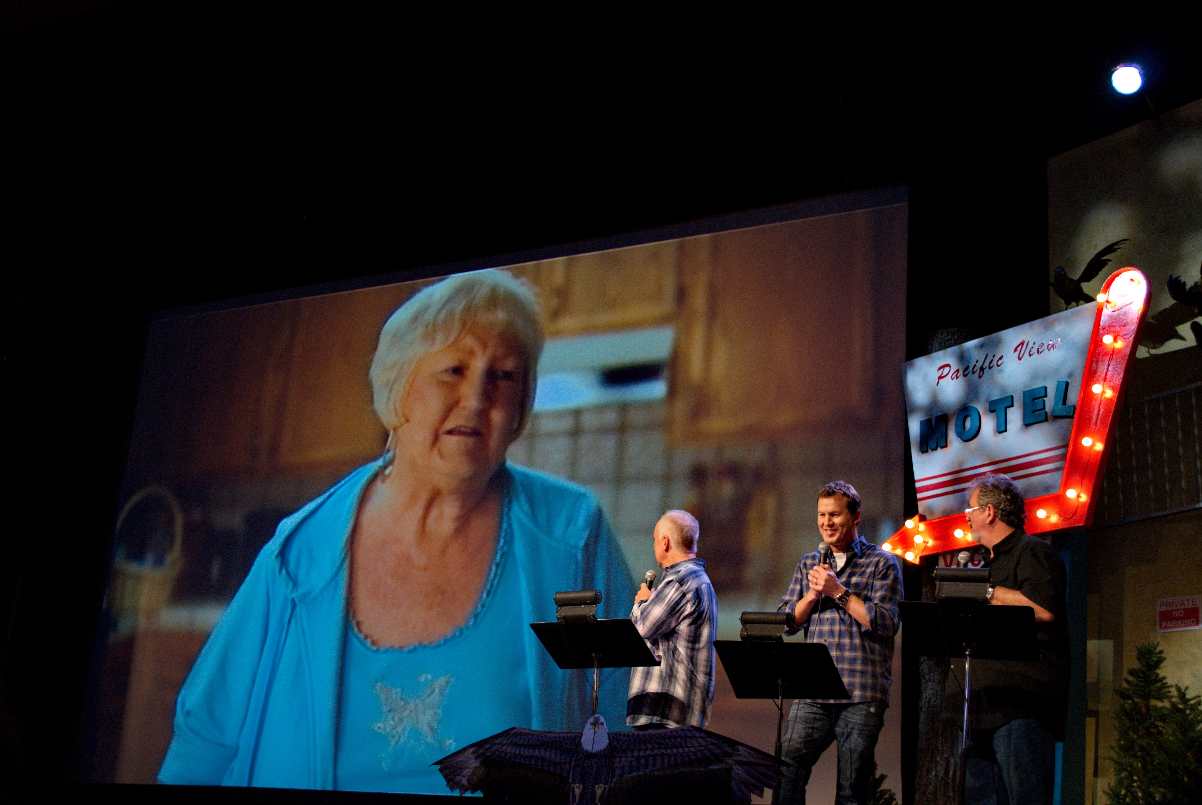 The Rifftrax crew performing a live show (in this case, of the movie Birdemic).